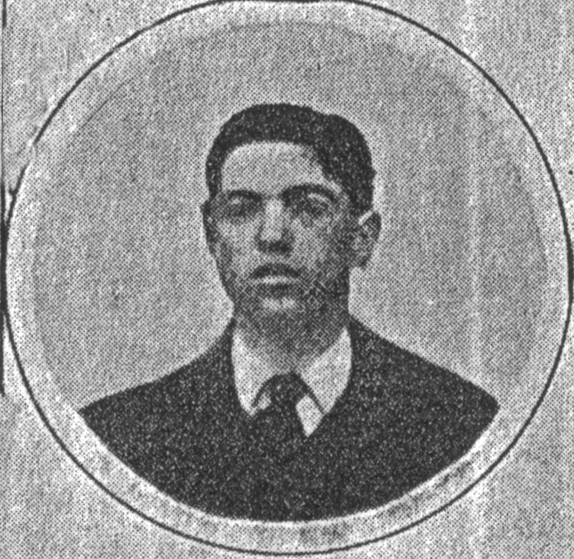 Picture of Patrick Whelan, Irish Volunteer, who was killed in action in Boland's Mill during the Easter Rising of 1916.